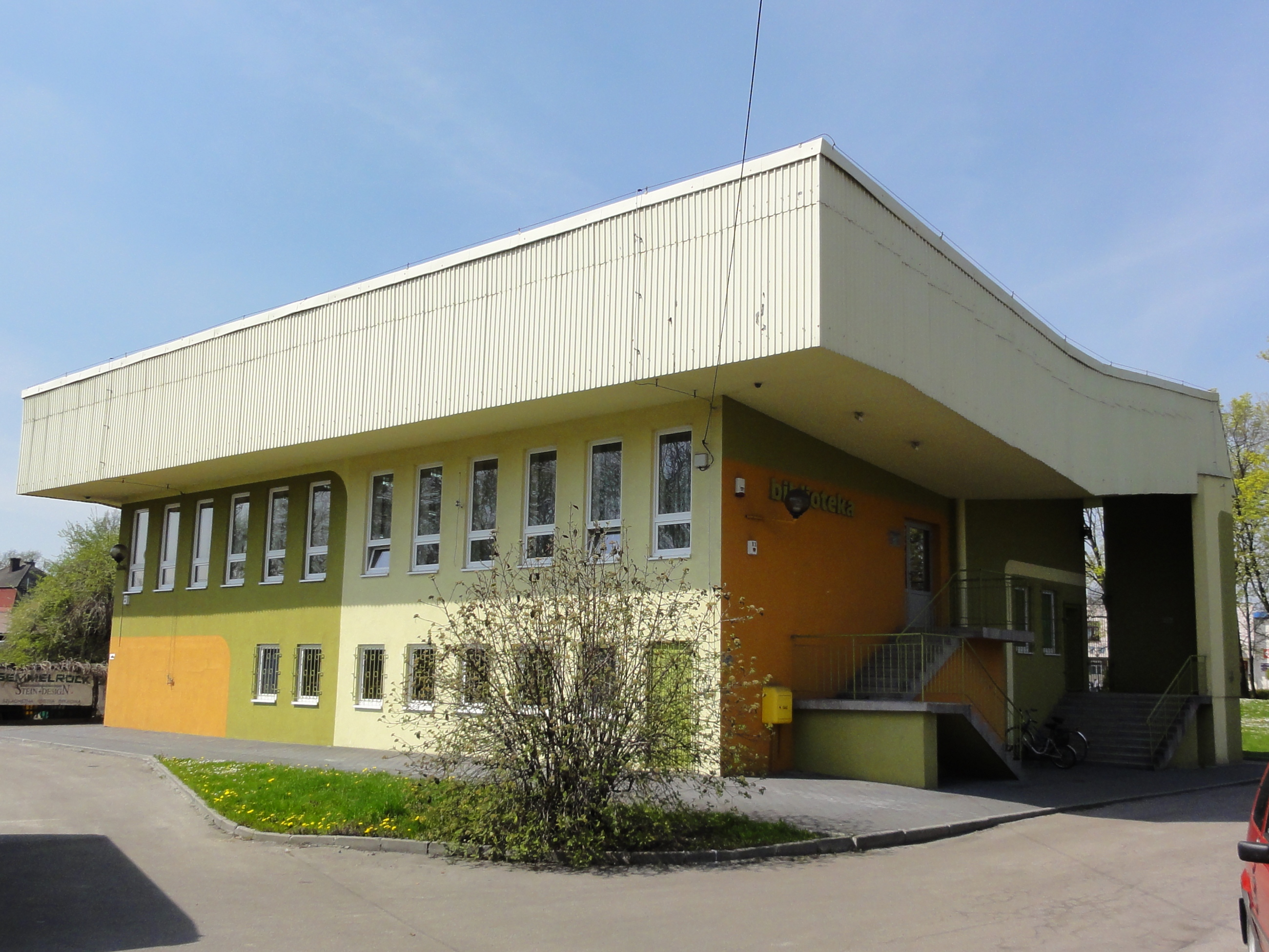 Library in Chybie